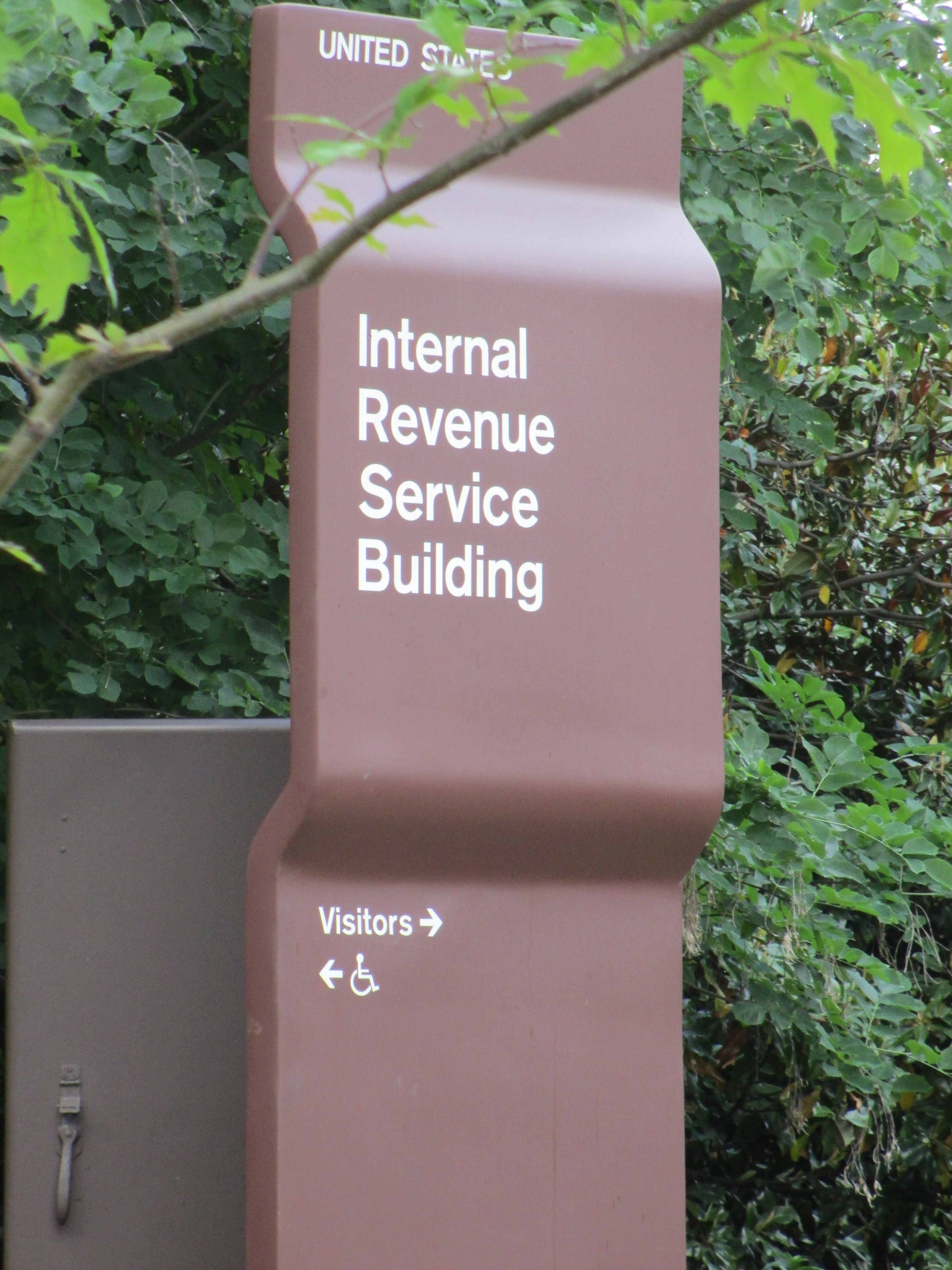 IRS Welcome sign